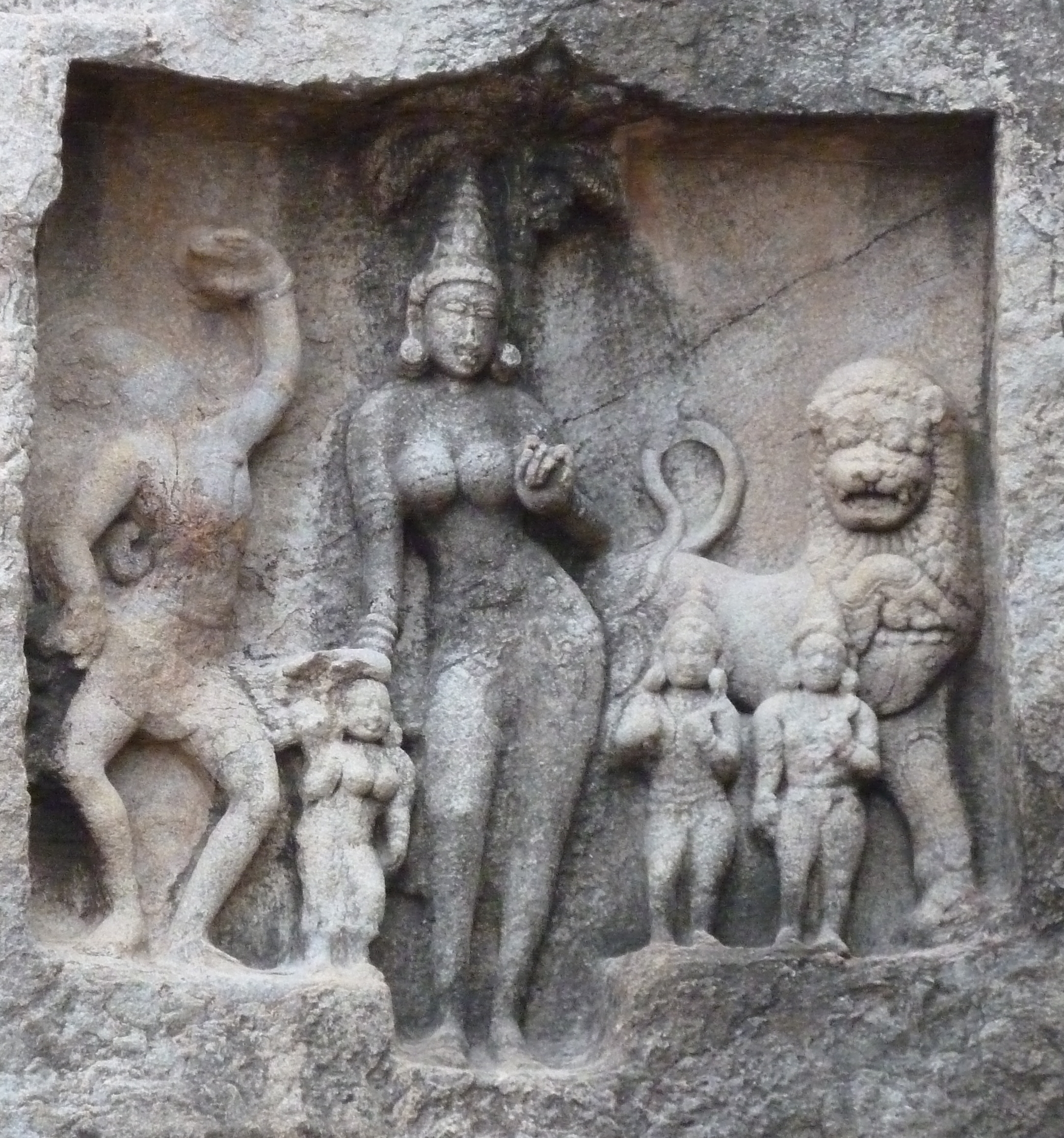 The image of Ambikā at Kalugumalai (Figure 10) clearly displays the attributes commonly associated with this goddess, namely the mango tree (seen over her proper left shoulder), her two male children, and the lion. Furthermore, Ambikā is presented as a two-armed goddess and stands with her right hand resting on the head of a small female attendant. The enigmatic male figure on her proper right has been identified as Ambikā’s agitated husband prior to his transformation into a vāhana. Significant to note is that Ambikā is depicted, like Padmāvatī, as an independent goddess and not as a subsidiary attendant (śāsanadevī) to the Jina Neminātha. Out of the approximately one hundred and fifty images at Kalugumalai, only two are goddesses. The remaining reliefs (with the exception of two representations of Gommaṭeśvara) depict standing or seated Tīrthaṅkaras. Source for the description of the image:DEMARCATING SACRED SPACE: THE JINA IMAGES AT KALUGUMALAI